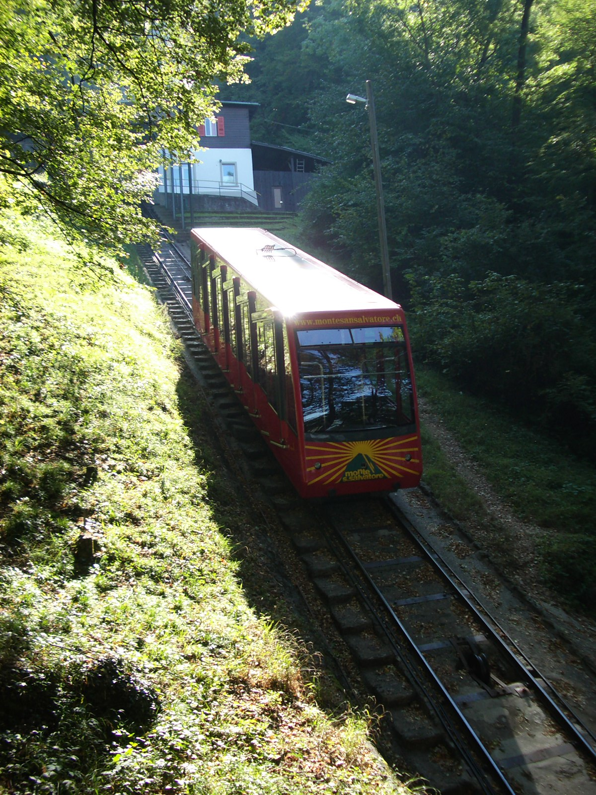 Pazzallo-Lugano TI, Switzerland